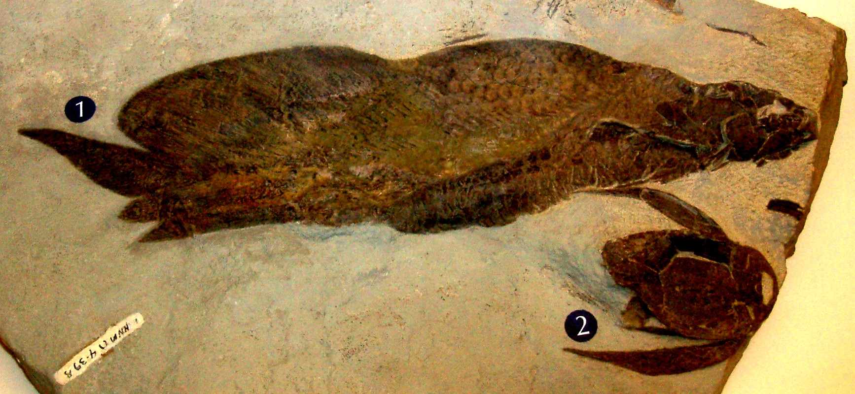 Fossil of Scaumenacia curta and Bothriolepis canadensis, two extinct fishes